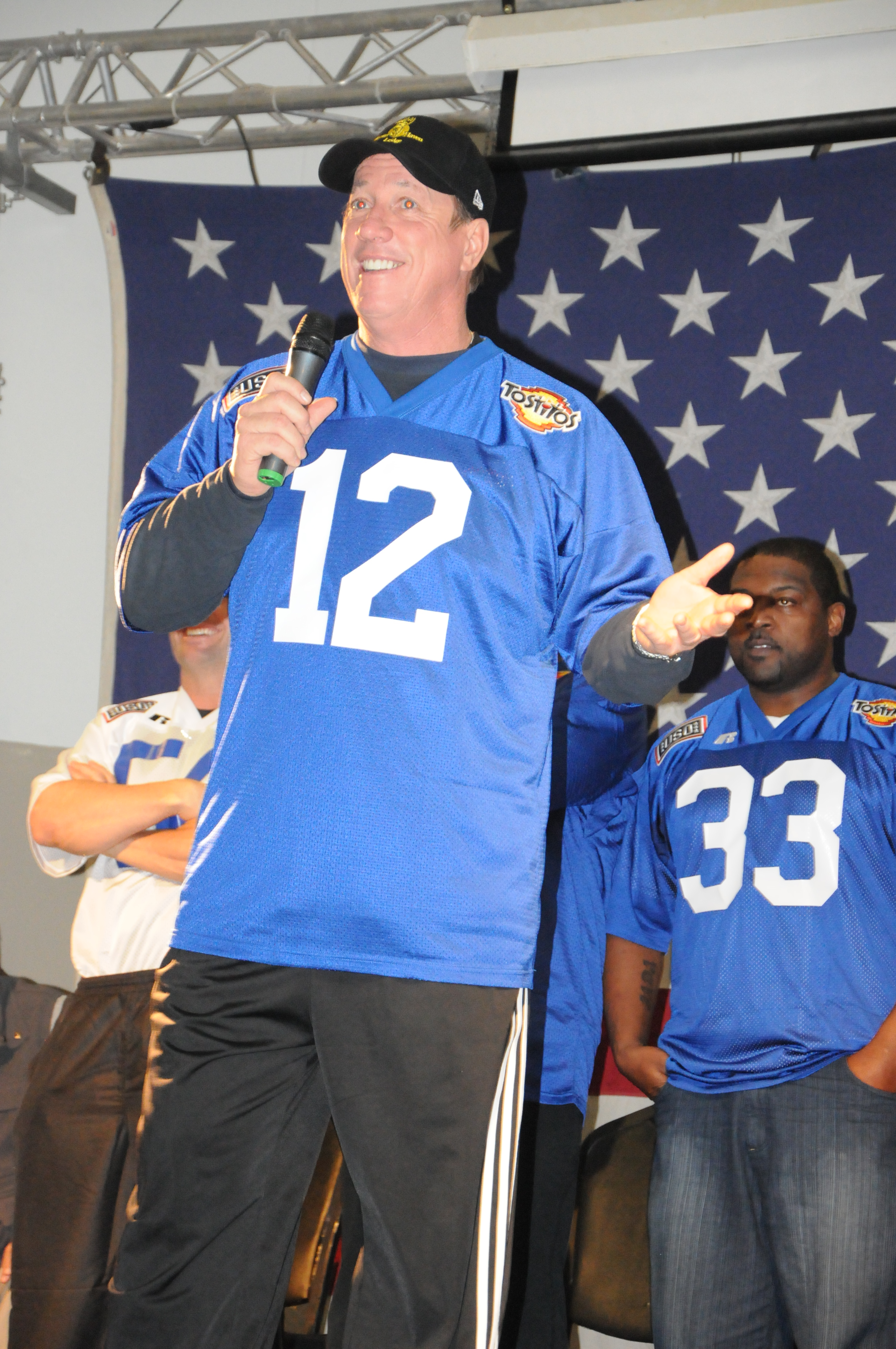 Jim Kelly, former quarterback for the Buffalo Bills, gets the troops fired up during a pep rally Dec. 20 for Tostitos “Salute the Troops” Bowl at Joint Base Balad, Iraq.